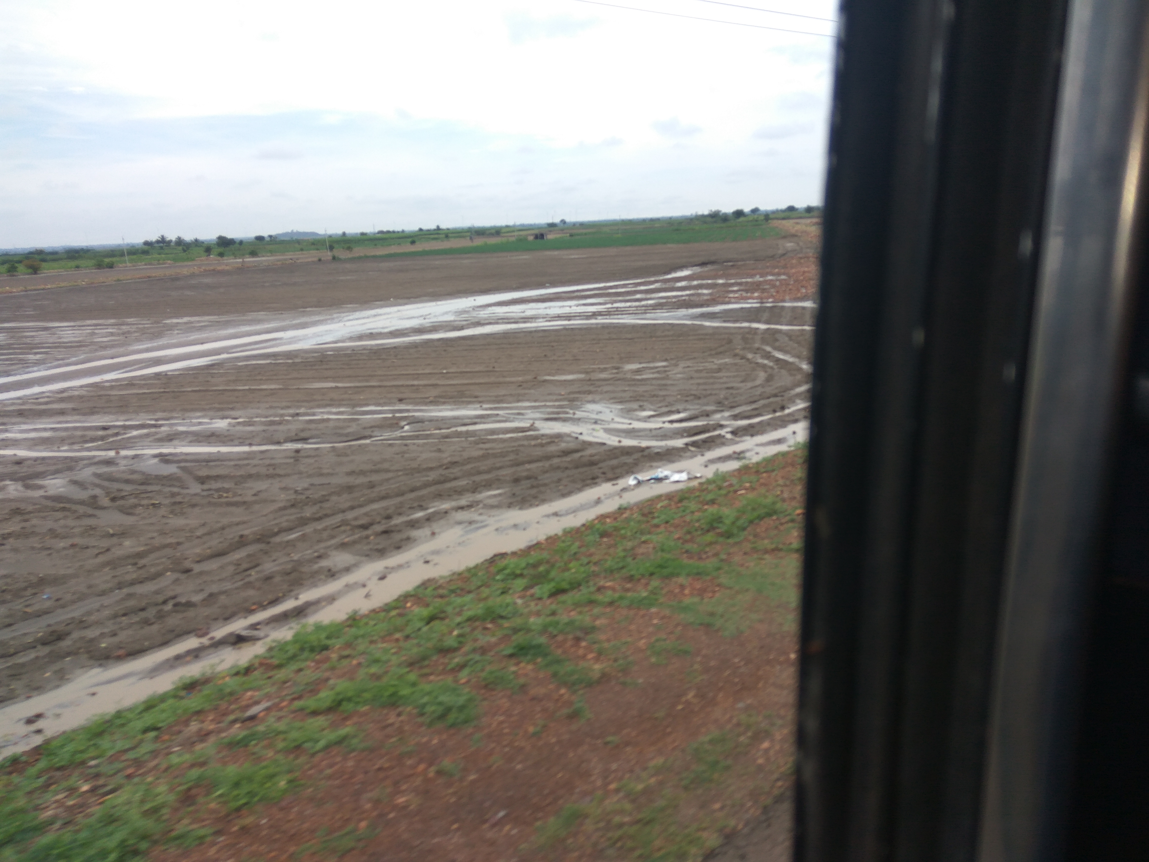 Good soil